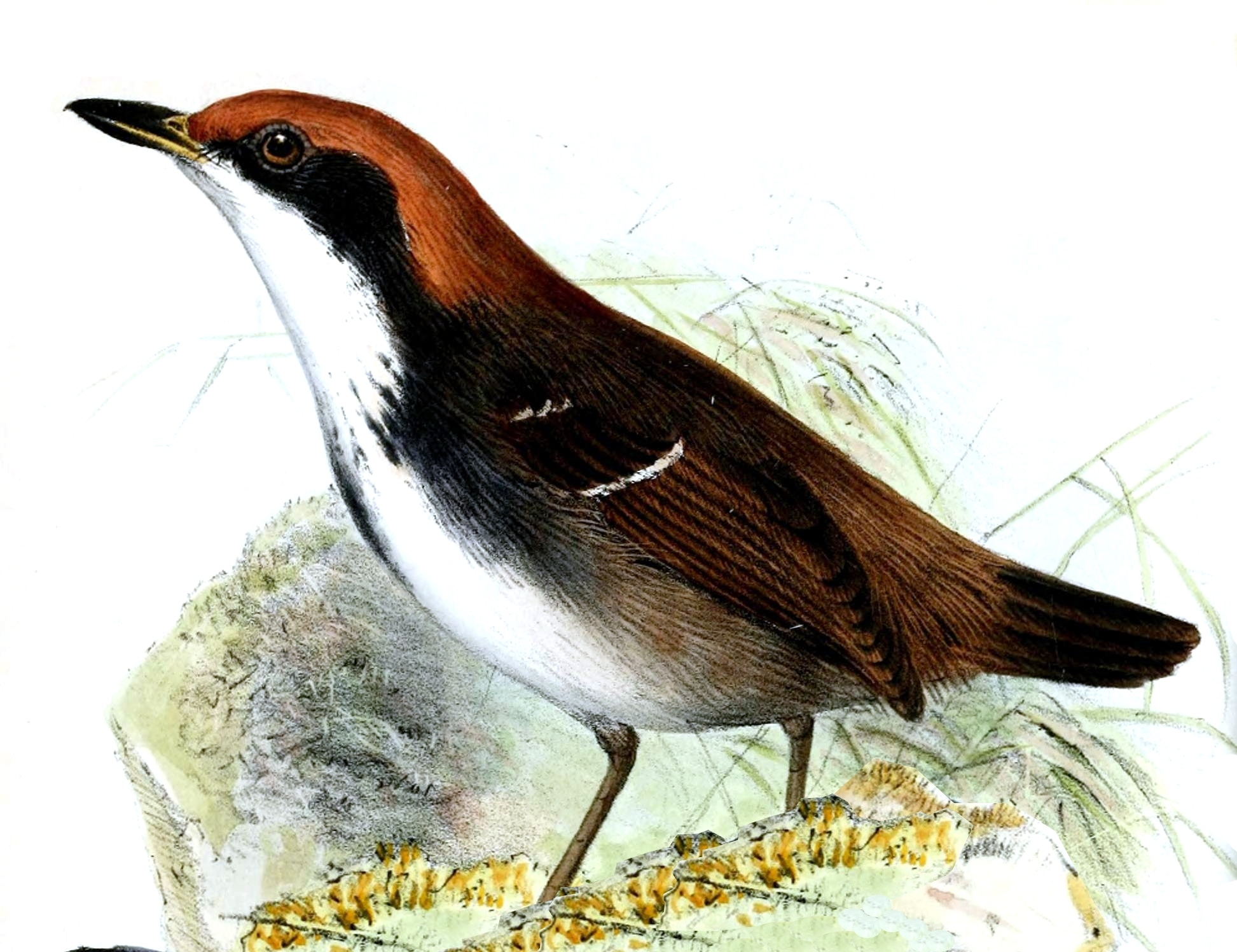 White-browed Antbird, female